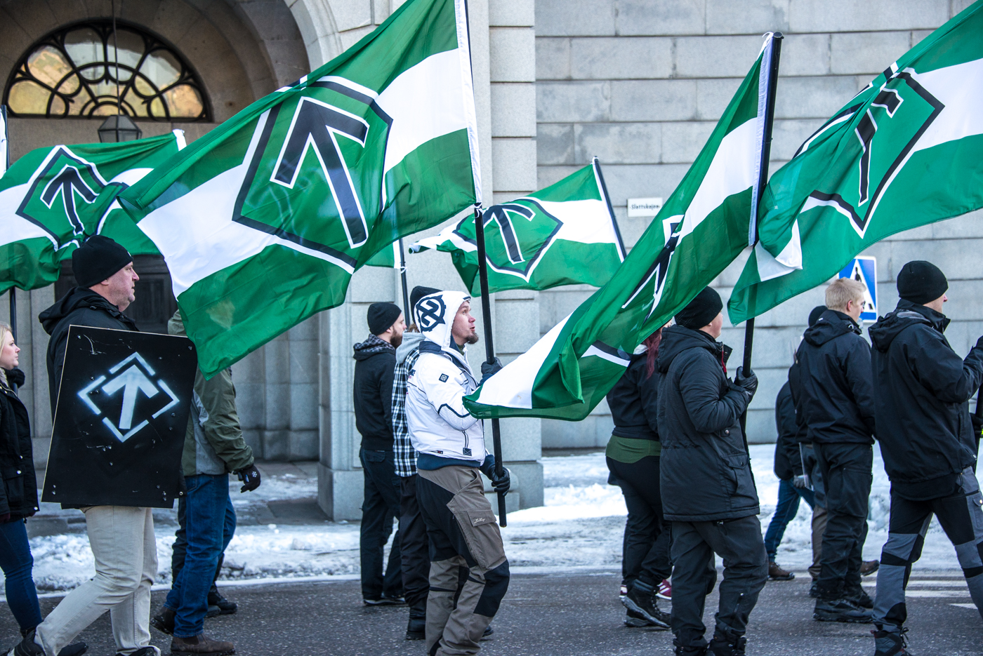 NMR, Nordic Resistance Movement, in a rally in central Stockholm on December 12, 2016. Mynttorget, Old city.